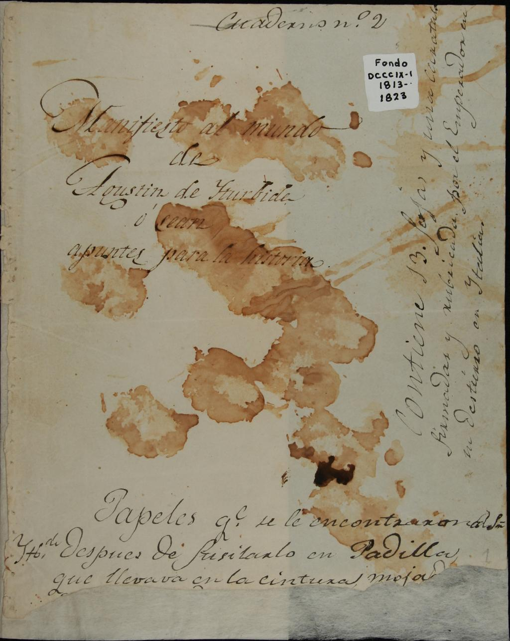 Declaration to the World by Agustin de Iturbide or Rather Notes for History, a manuscript tinged with blood and found between the sash and shirt of Agustín de Iturbide after his execution by firing squad on July 19, 1824.